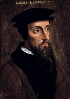 Portrait of John Calvin (1509–1564). Photo by Ruben de Heer.